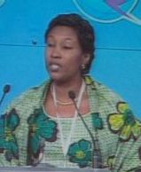 Neneh MacDouall-Gaye; Department of State for Communication, Information And Technology, Gambia world summit on the information society (geneva 2003- tunis 2005)